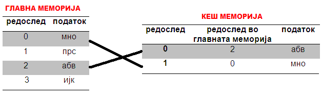 кеш меморија